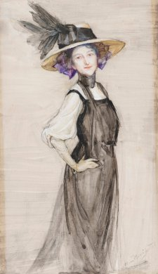 self portrait Elizabeth May Norriss (1878-1939) was an Australian artist. Collection: National Portrait Gallery, Canberra Purchased with funds provided by Barbara and Jim Higgins 2010 Accession number: 2010.132 - date unknown but before 1939